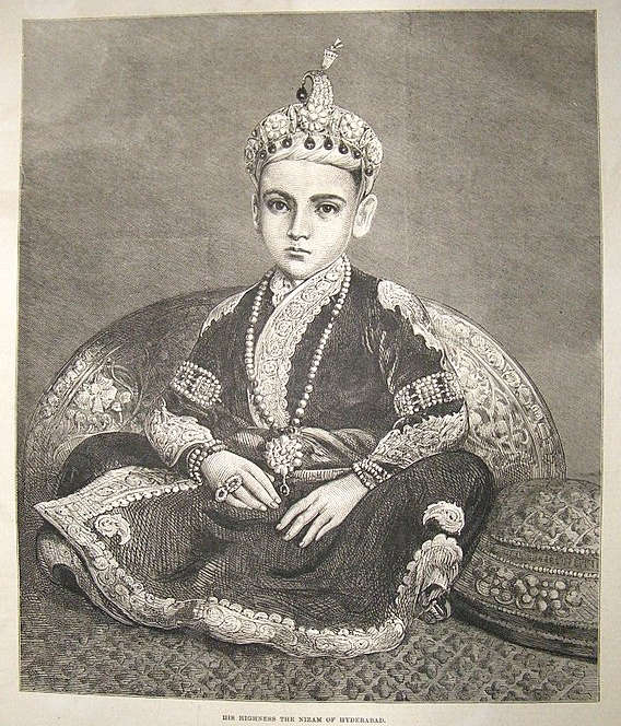 "His Highness the Nizam of Hyderabad," from the Illustrated London News, 1876